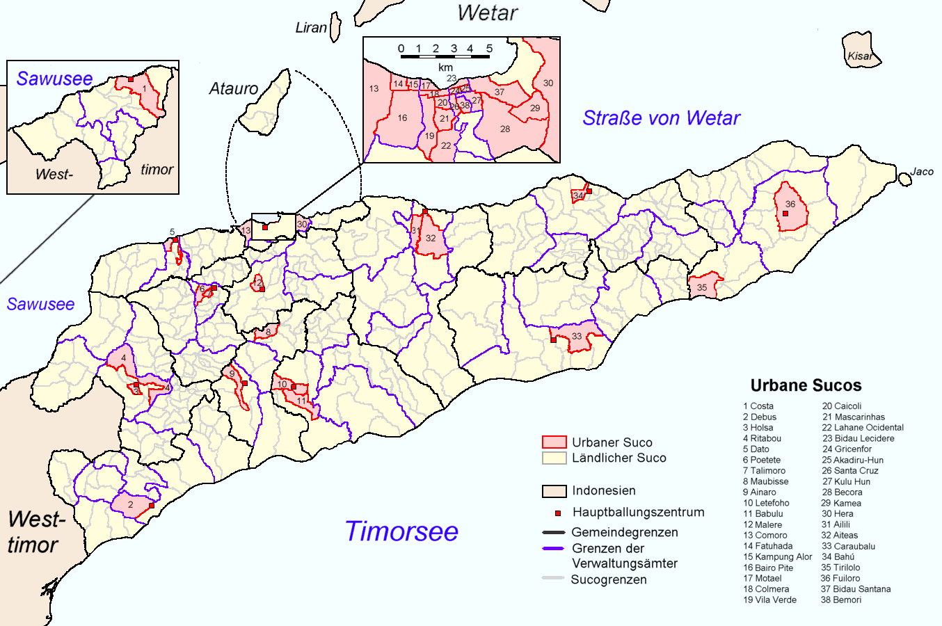 Administrative borders of East Timor. Borders of districts (black), subdistricts (violet) and sucos (gray) of Timor-Leste. Urban sucos are pink with red borders.